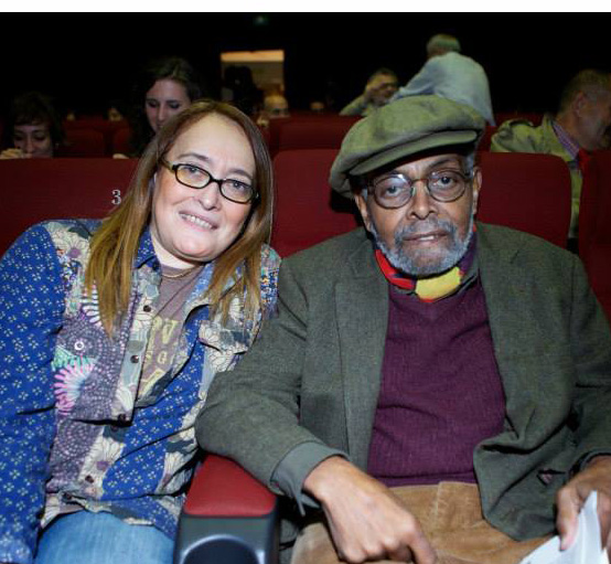 Poets Amiri Baraka and Caterina Davinio, 2013.